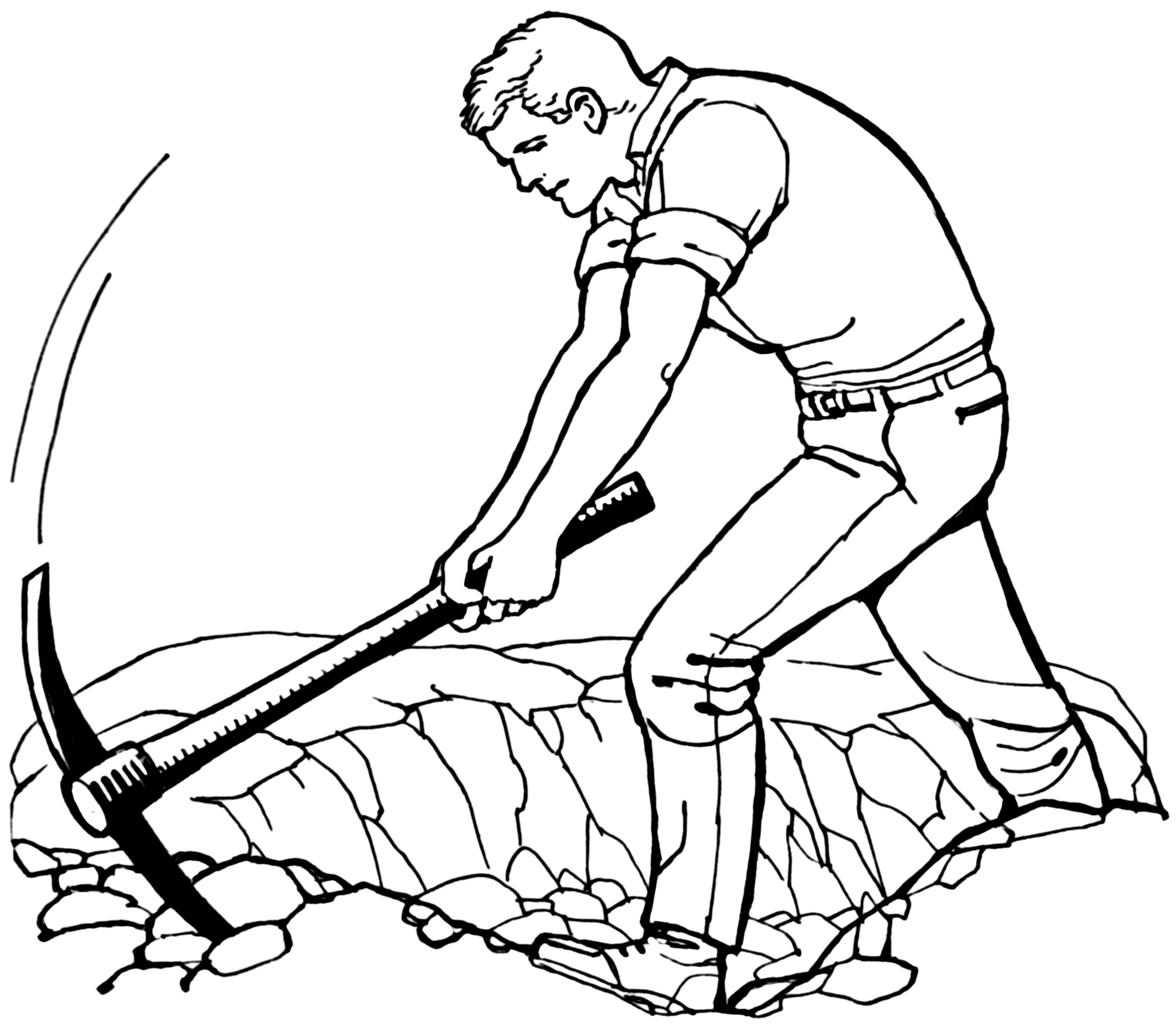 Line art drawing of pickax.